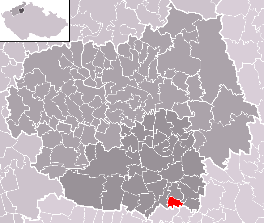 Location of Černouček municipality within Litoměřice District and administrative area of Roudnice nad Labem as a Municipality with Extended Competence.